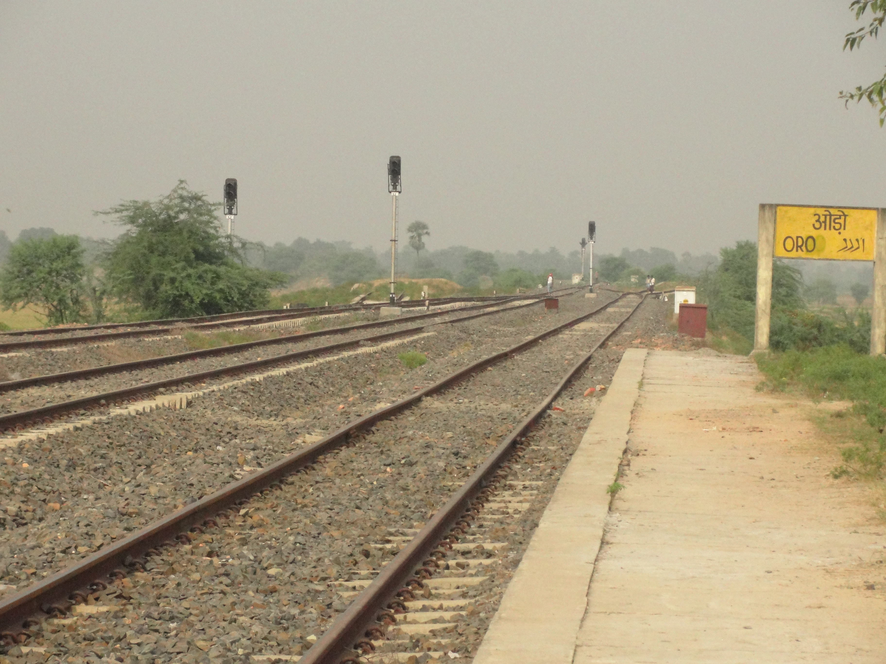 its the new railway Station of village ,orro,nawada,in bihar